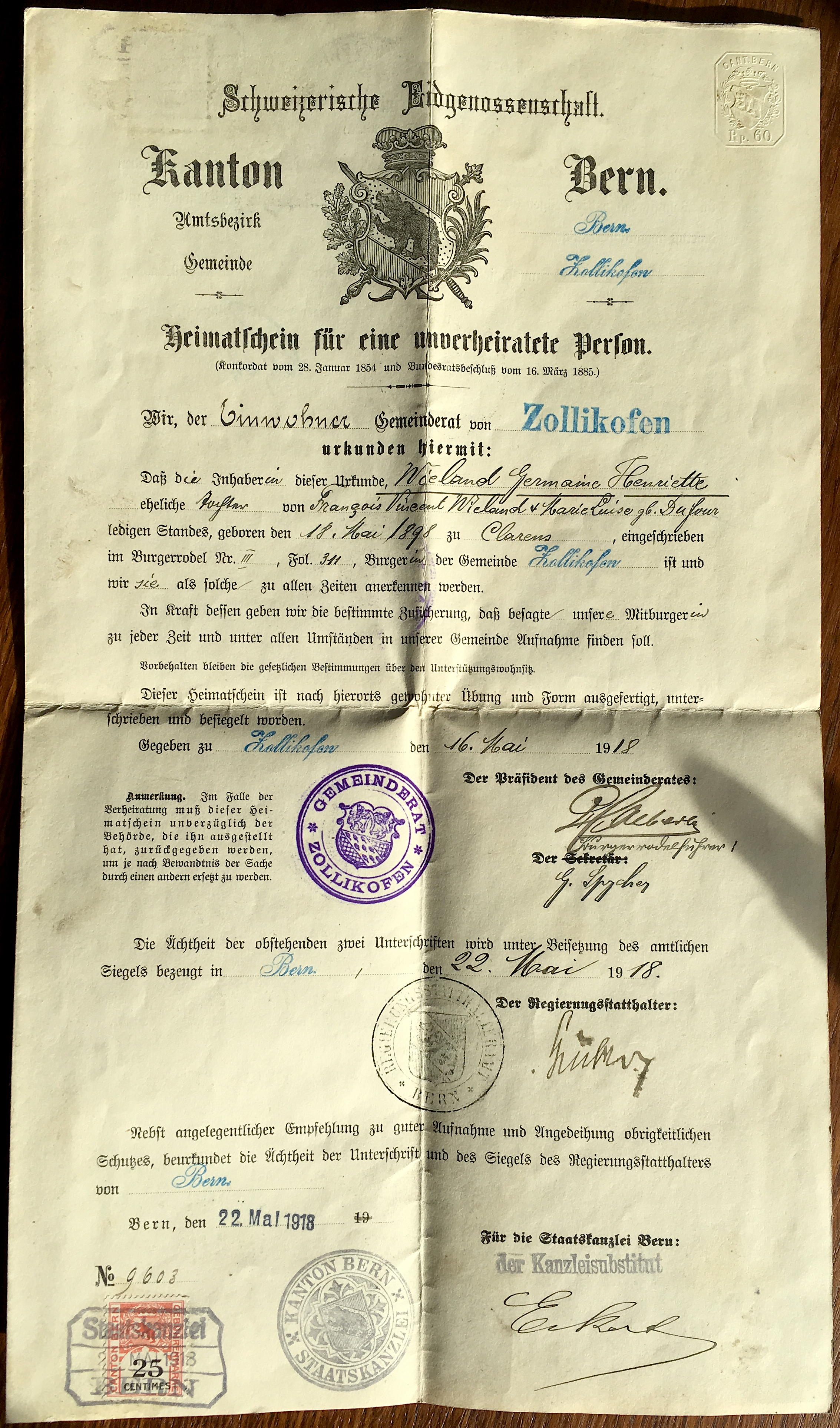 Switzerland Zollikofen 1918 content of a Heimatschein - place of origin certificate. In Switzerland, the place of origin (German: Heimatort or Bürgerort, literally "home place" or "citizen place"